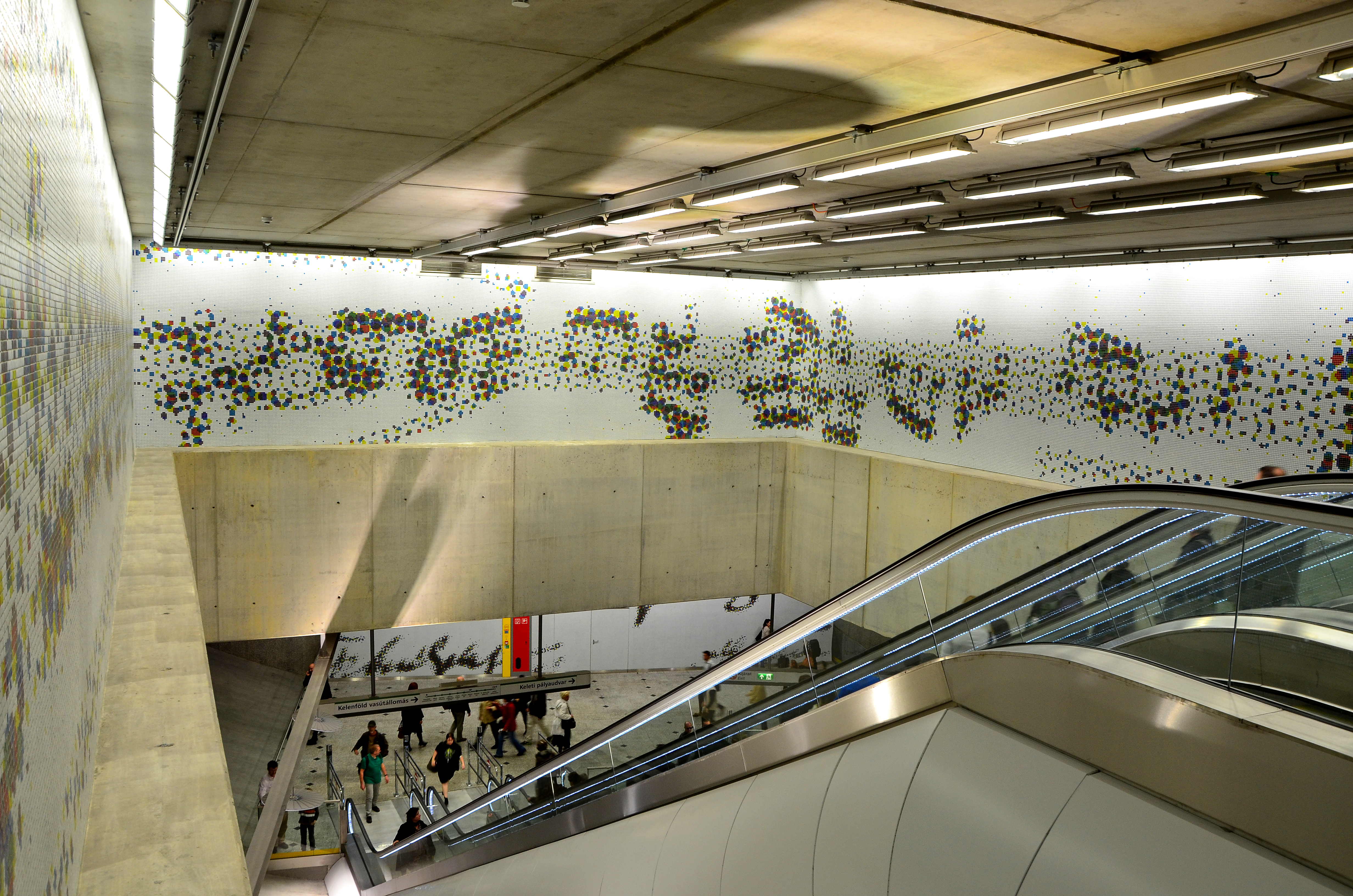 Line 4 (Budapest Metro), Kálvin tér station, the decoration on the wall is a score of Kodály.